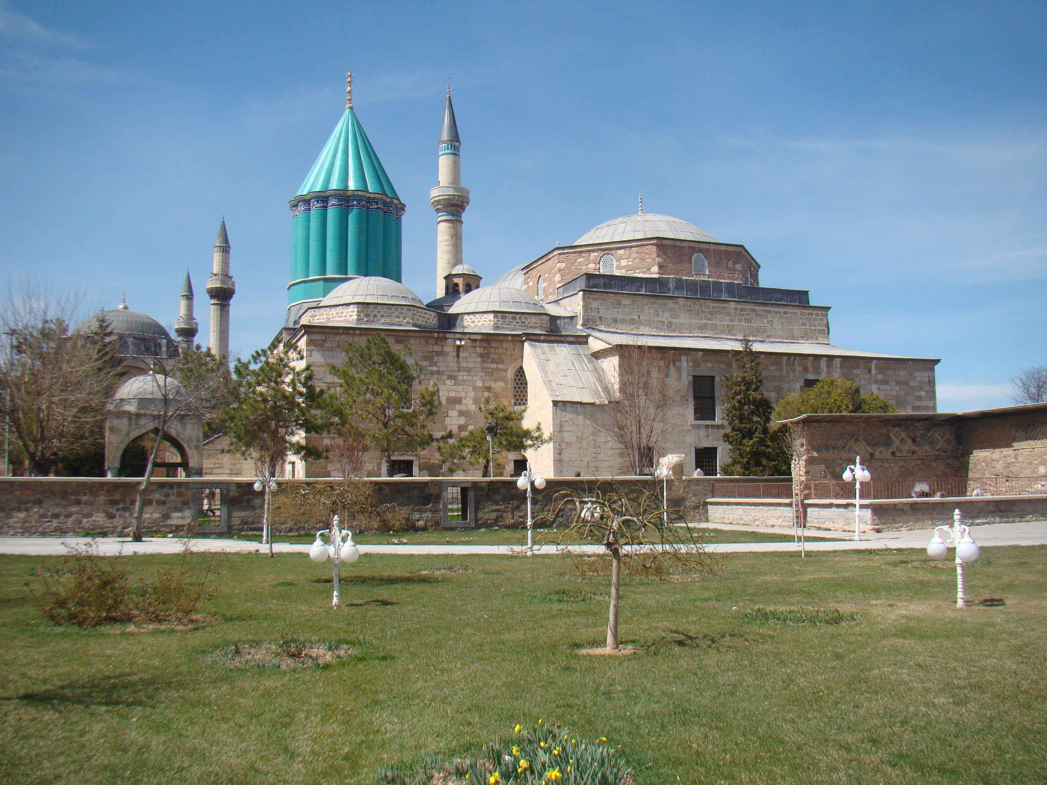 Mevlana Museum, Konya, Turkey